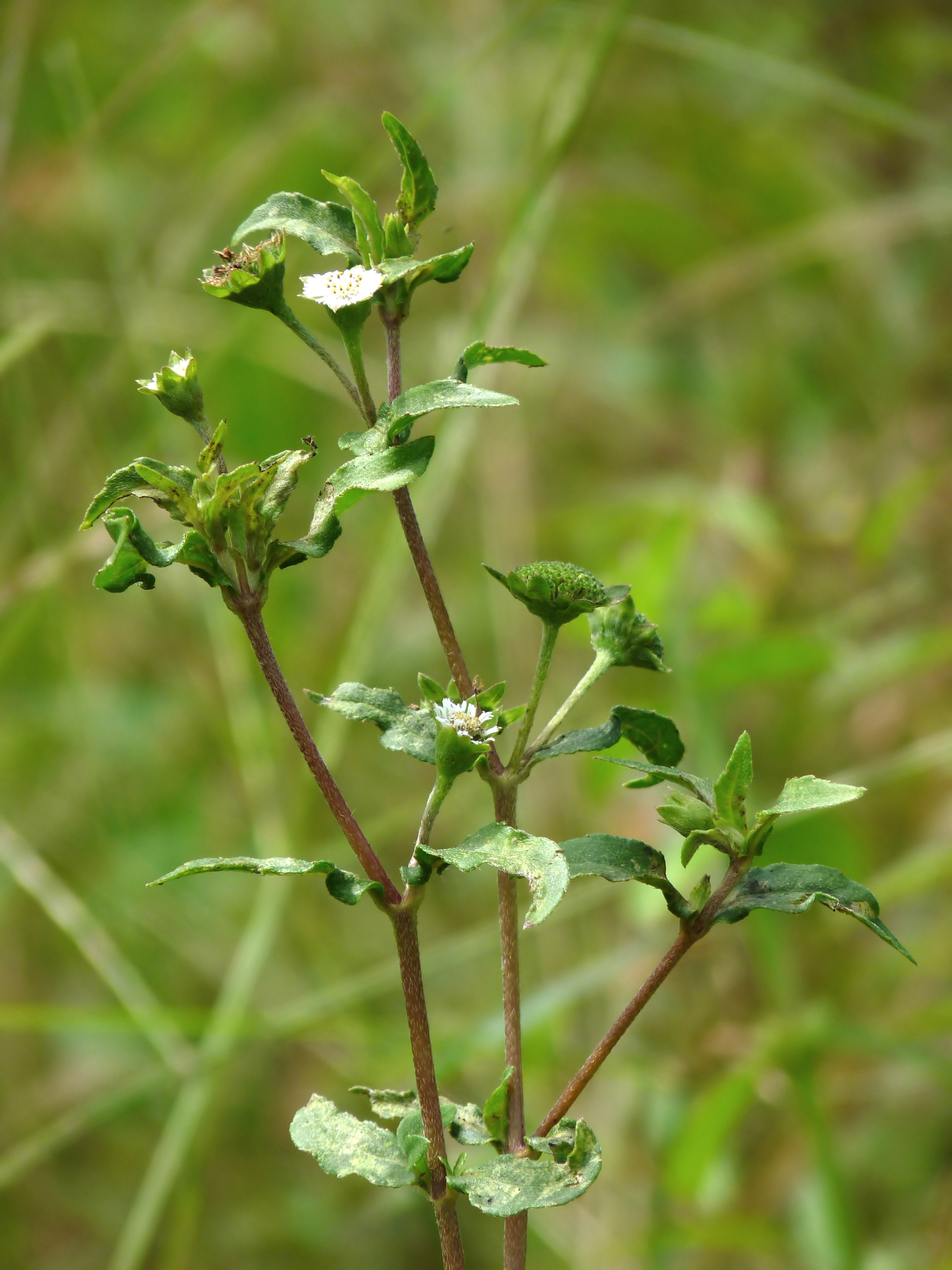 Eclipta prostrata, (Syn. Eclipta alba), commonly known as False daisy, Yerba de tago, and Bhringraj, is a species of plant in the family, Asteraceae. Stems are erect or prostate, entirely velvety, often rooting at nodes. Oppositely arranged stalkless, oblong, lance-shaped, or elliptic leaves are 2.5-7.5 cm long. It has a short, flat or round, brown stem and small white daisy-like flowers on a long stalk. The solitary flower heads are 6–8 mm in diameter, with white florets. The achenes are compressed and narrowly winged. This plant has cylindrical, grayish roots. This species grows commonly in moist places as a weed in warm temperate to tropical areas worldwide. It is widely distributed throughout India, China, Thailand, and Brazil.